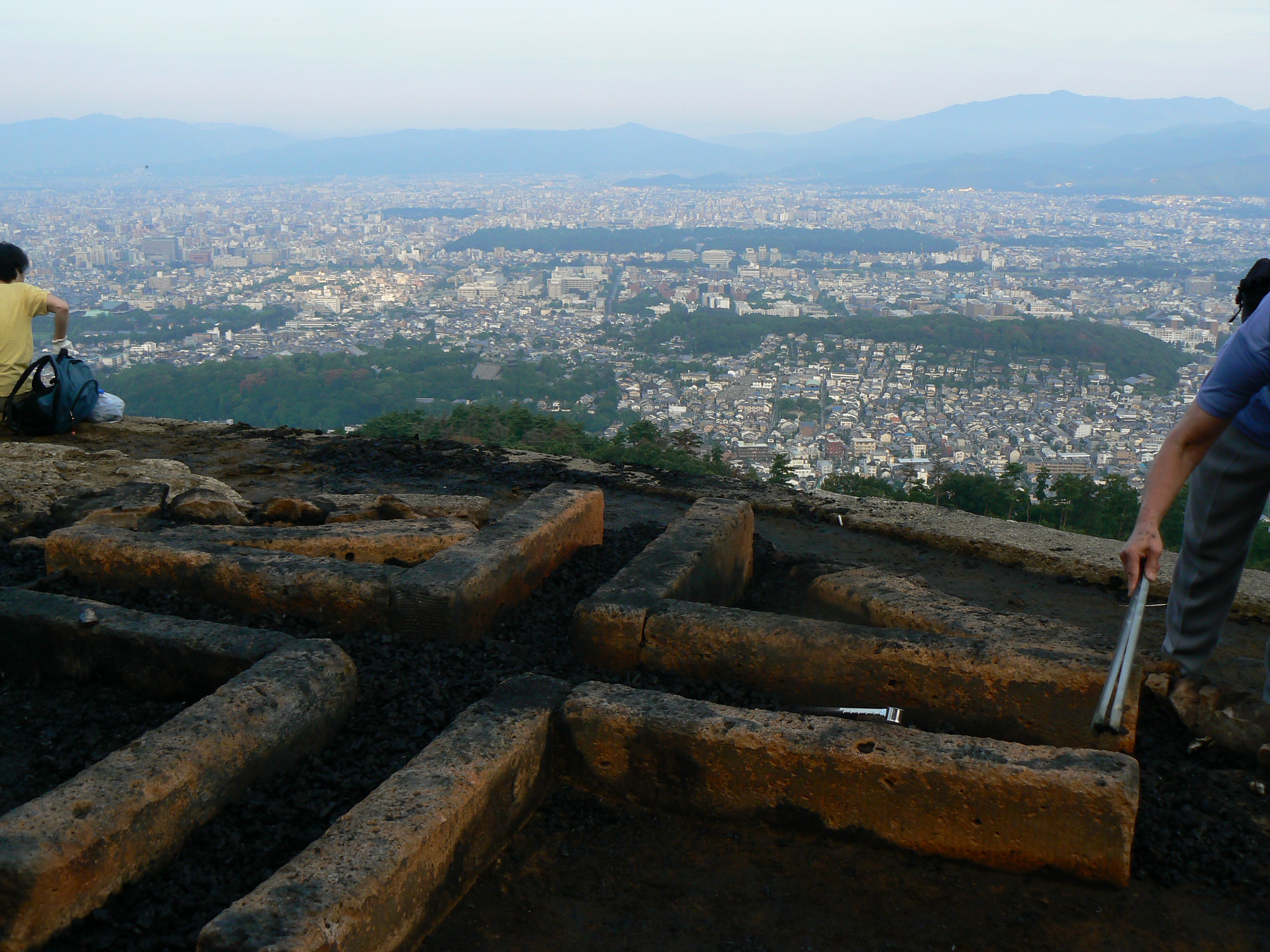 Fire bed of Gozan no okuribi on Mount Daimonji